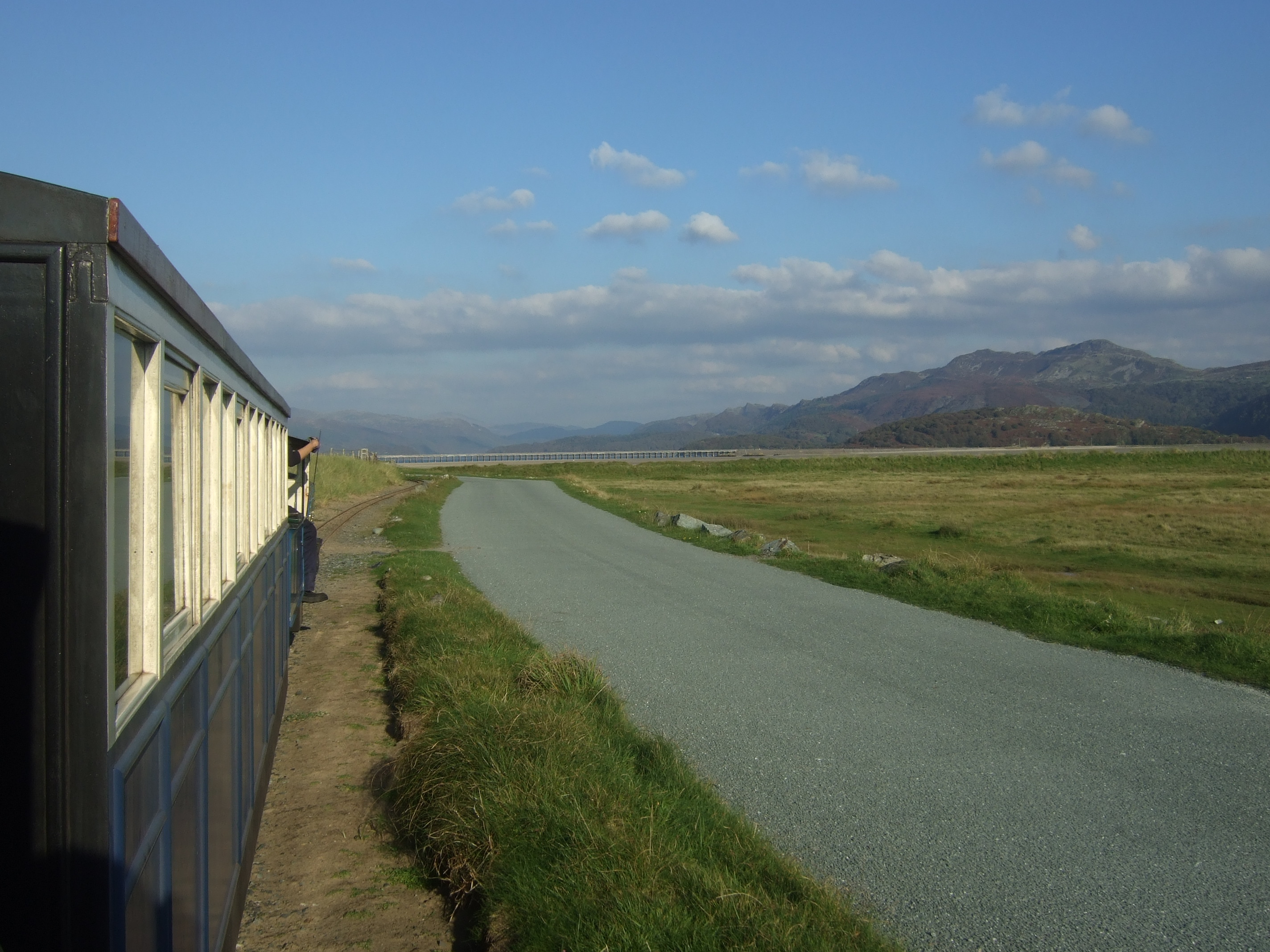 Sherpa hauls a train towards Barmouth Ferry station. The Barmouth Bridge is in the background.